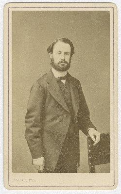 Gustav Arthur Poujade (1875 -1909) French entomologist